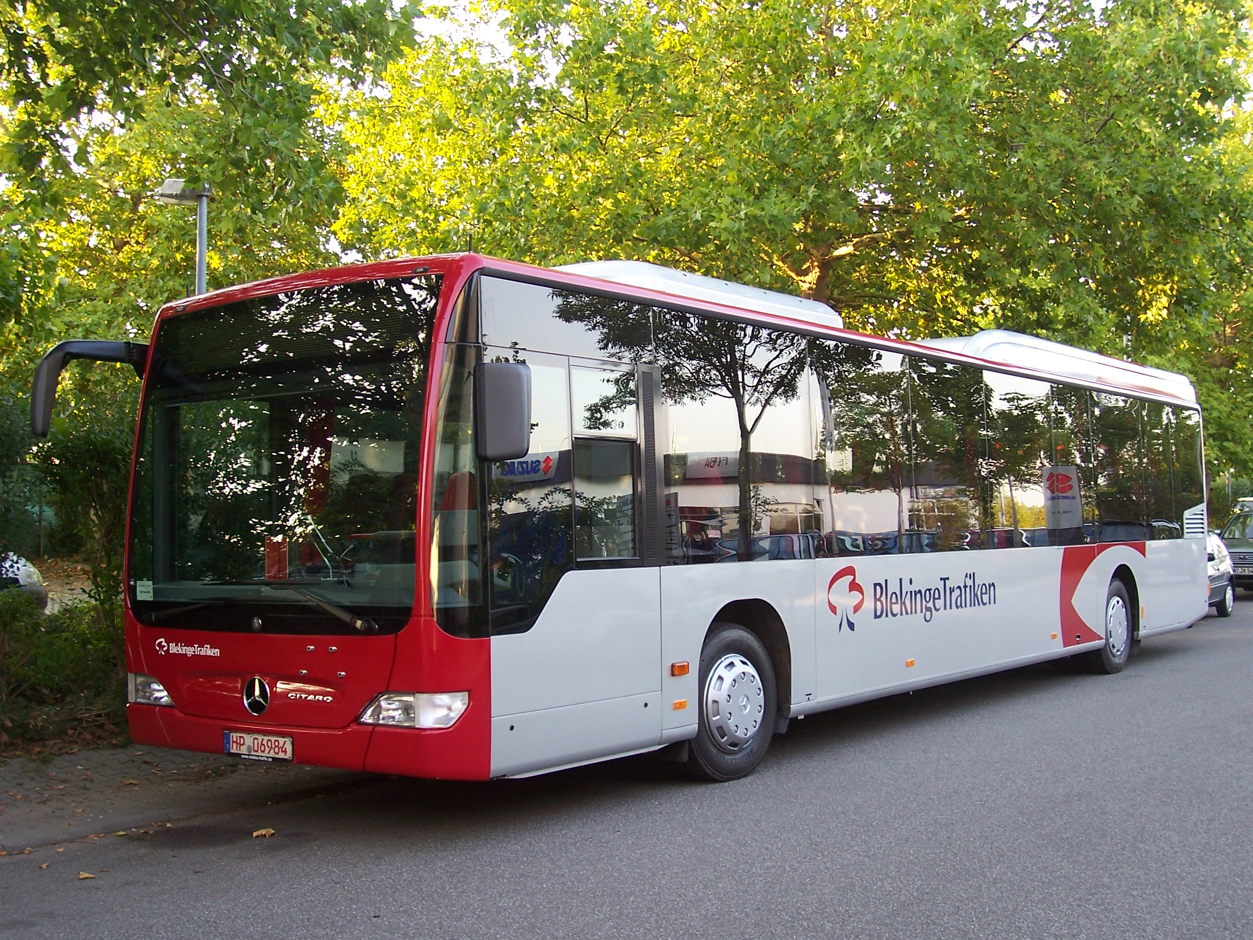 Brand new Mercedes-Benz Citaro LE MÜ bus (reg. HP-06984) for BlekingeTrafiken/Bergkvarabuss in Sweden. Probably on trial or homologation run in Mannheim, Germany.